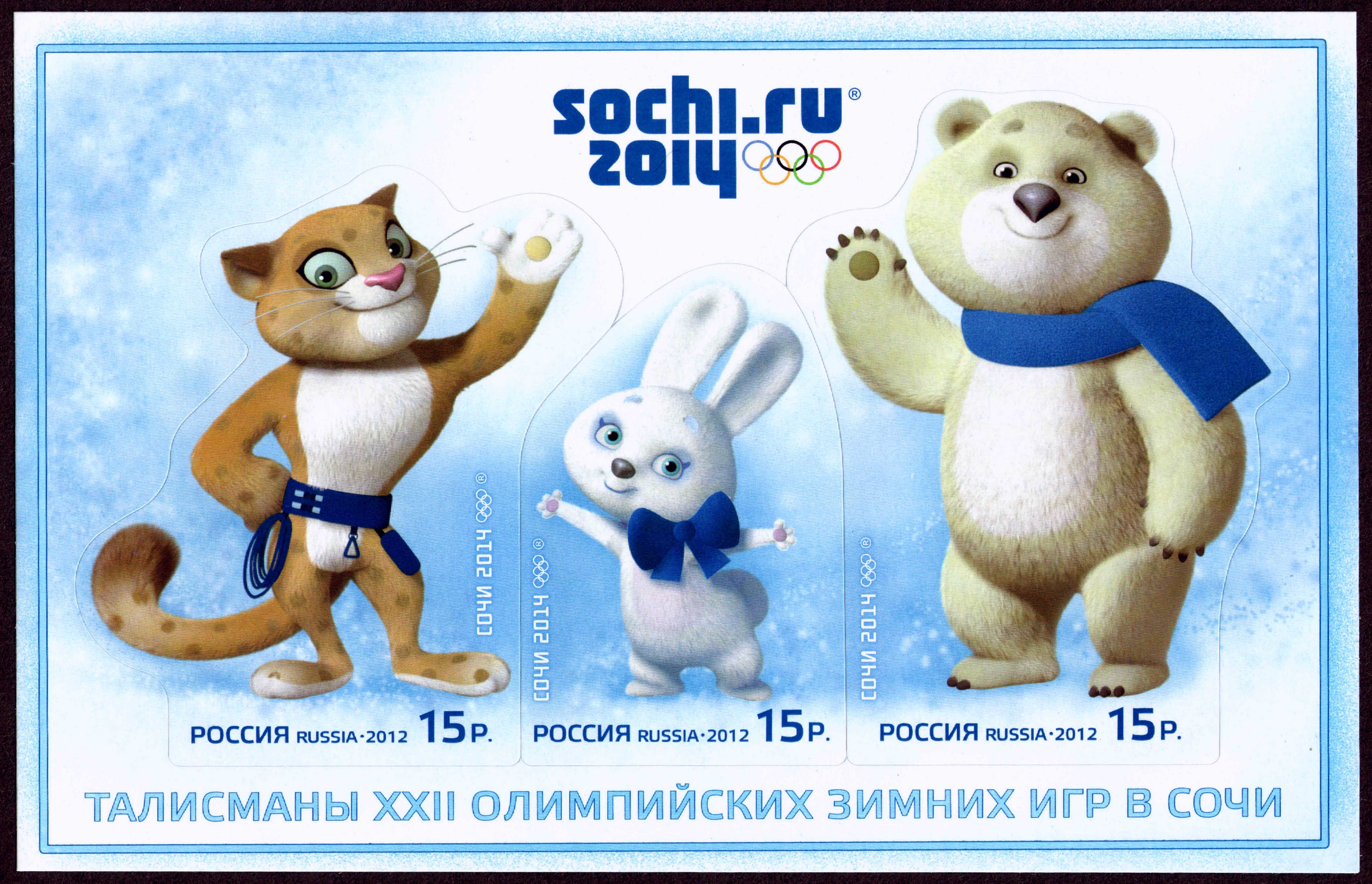 The mascots of the 2014 Winter Olympics in Sochi. The souvenir sheet of Russia: 3 self-adhesive stamps. 27 February 2012, Catalogue PTC Marka No 1559–1561: No 1559, 15 Rubles: Leopard; No 1560, 15 Rubles: Zaya the doe hare; No 1561, 15 Rubles: Polar Bear.